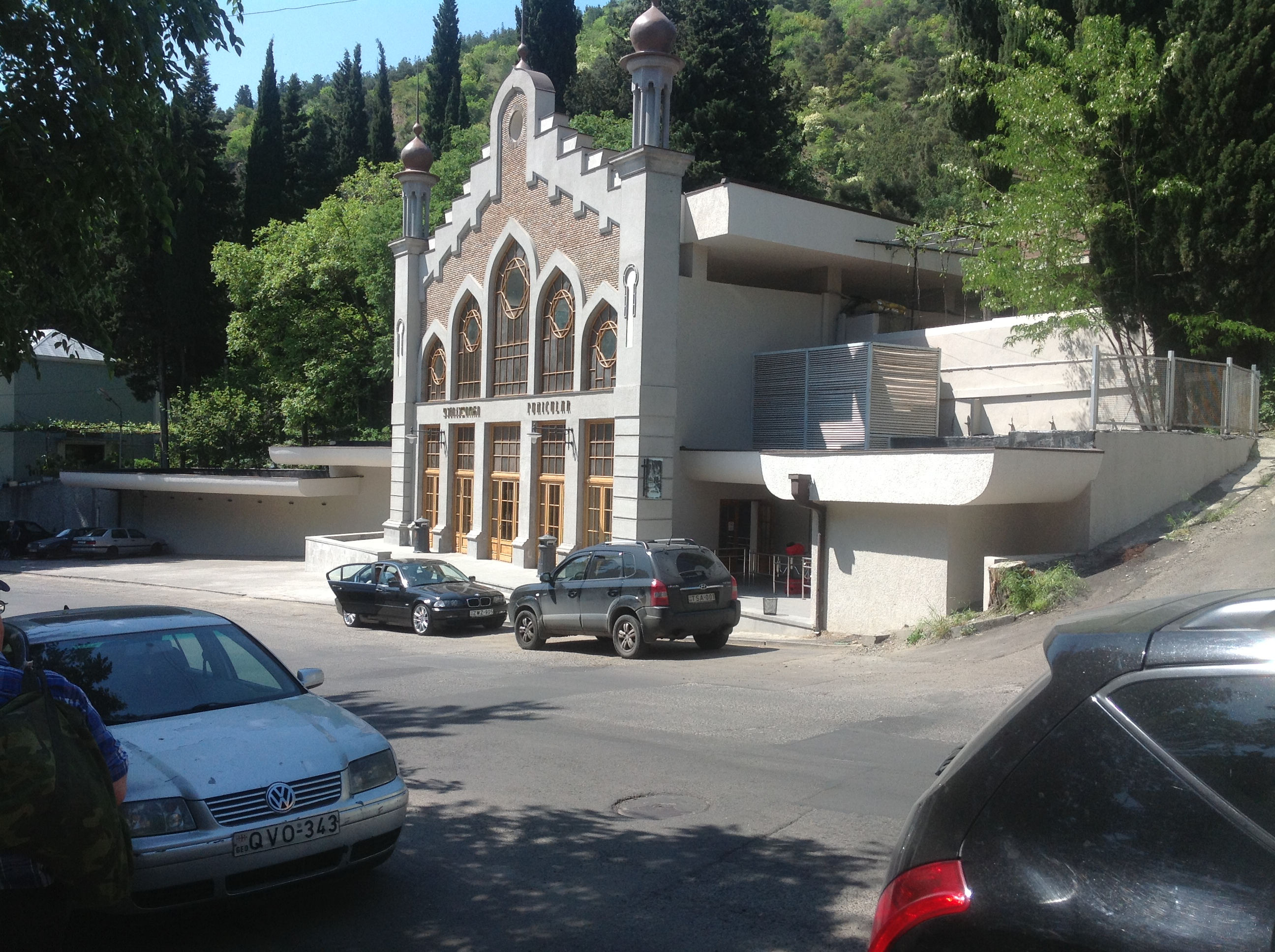 The Tbilisi Funicular Station at the foothills of Mt. Mtatsminda. Built in 1905.